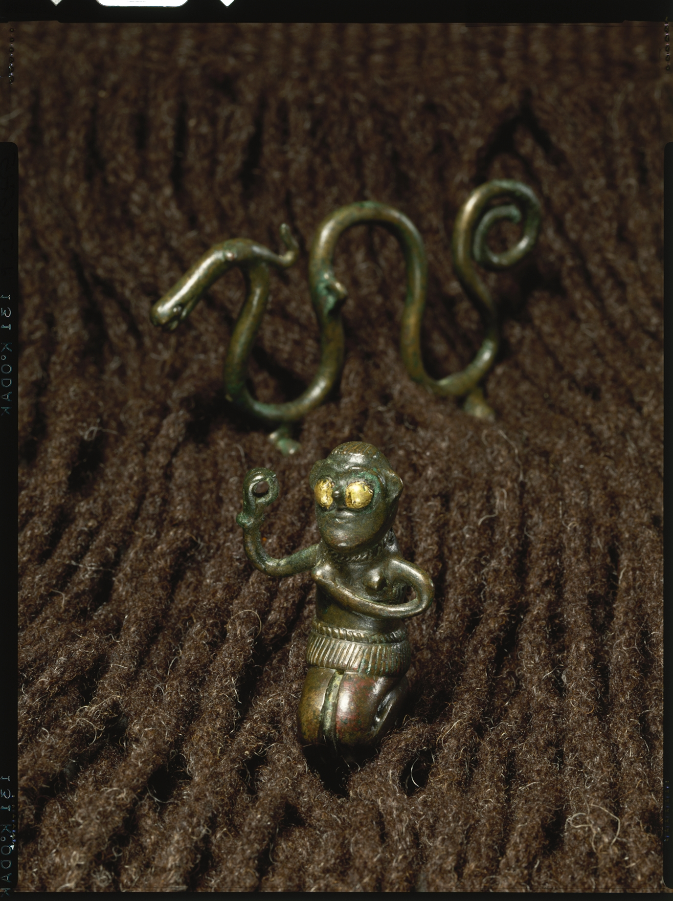 women (B11665) ja snake (B11664)